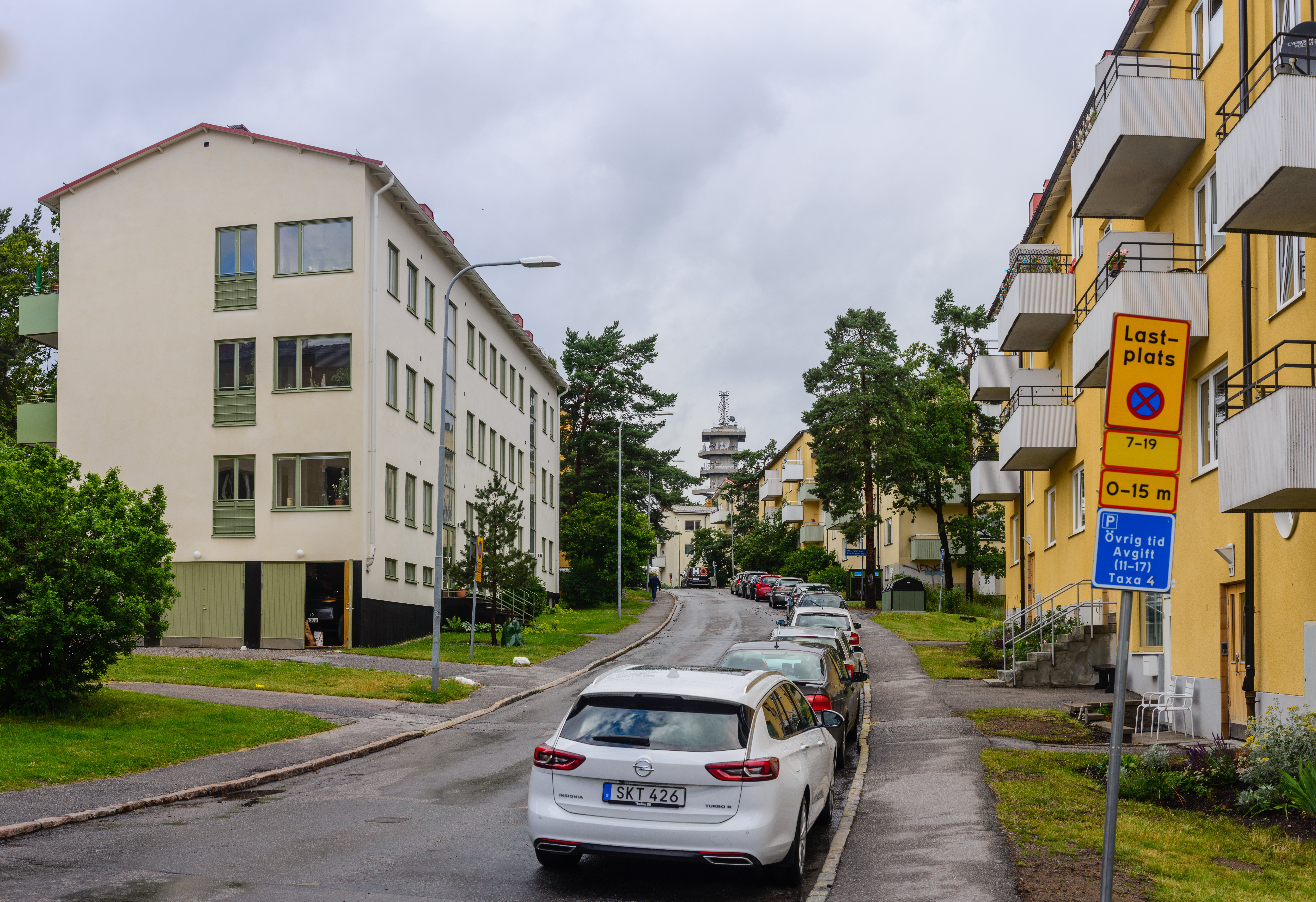 The street Per Lindeströms väg in Hammarbyhöjden, Stockholm.